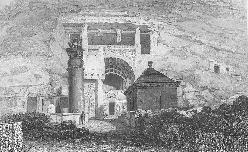 "The Cave of Karli," a steel engraving by Cattermole and Bishop, London Printing and Publishing Company, 1858 Source: ebay, Feb. 2006